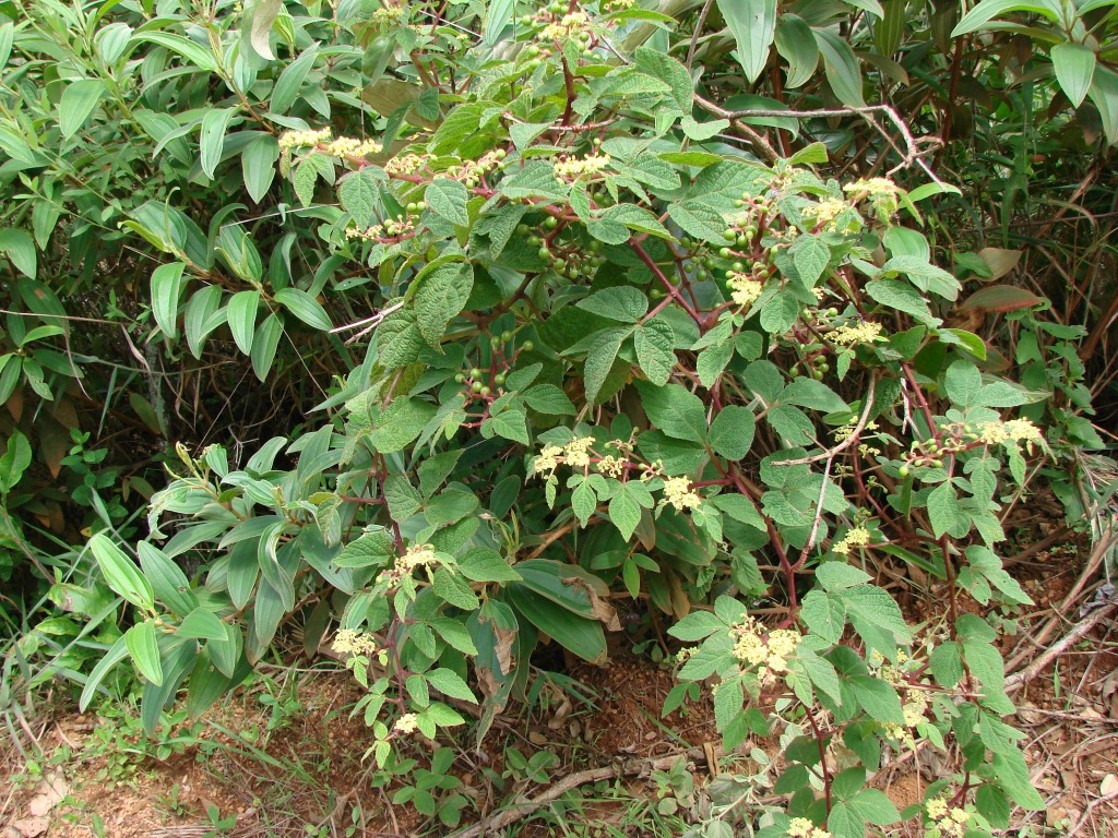 Cissus duarteana, Parque Nacional de Brasília – Brazil